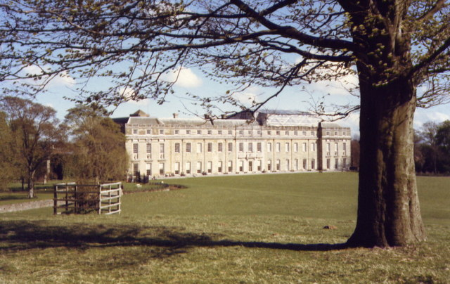 Petworth House in Petworth, West Sussex, England, is a late 17th-century mansion, rebuilt in 1688 by Charles Seymour, 6th Duke of Somerset, and altered in the 1870s by Anthony Salvin.